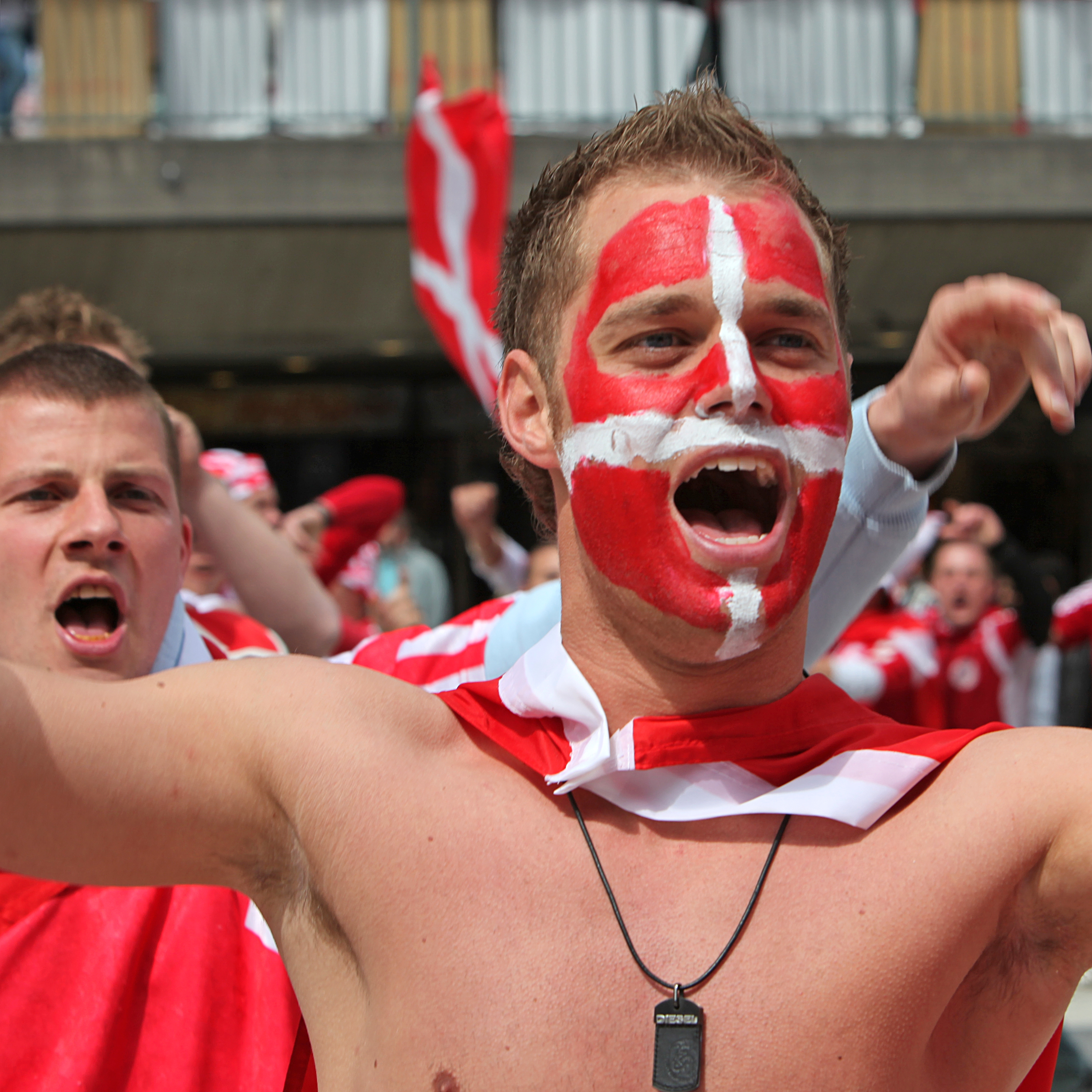 The Danes came to Stockholm 2009, beat us in soccer, made a mess, and left. Thank you Denmark !